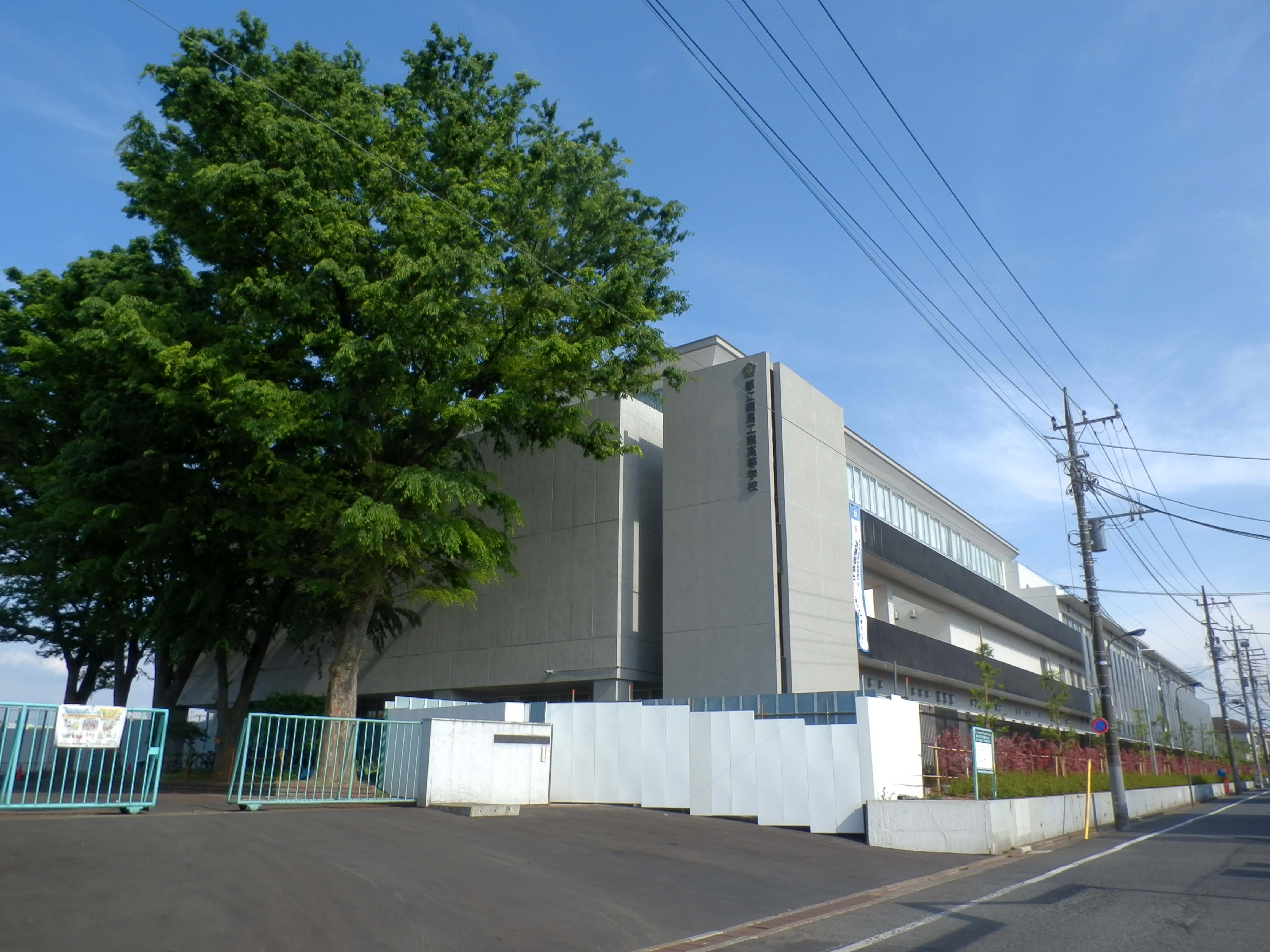 Tokyo Metropolitan Institute Nerima Technical High School